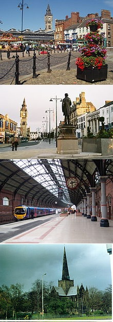 Images of Darlington. From top to bottom: Market Square, High Row & Pease statue, Bank Top railway station, St Cuthbert's church.